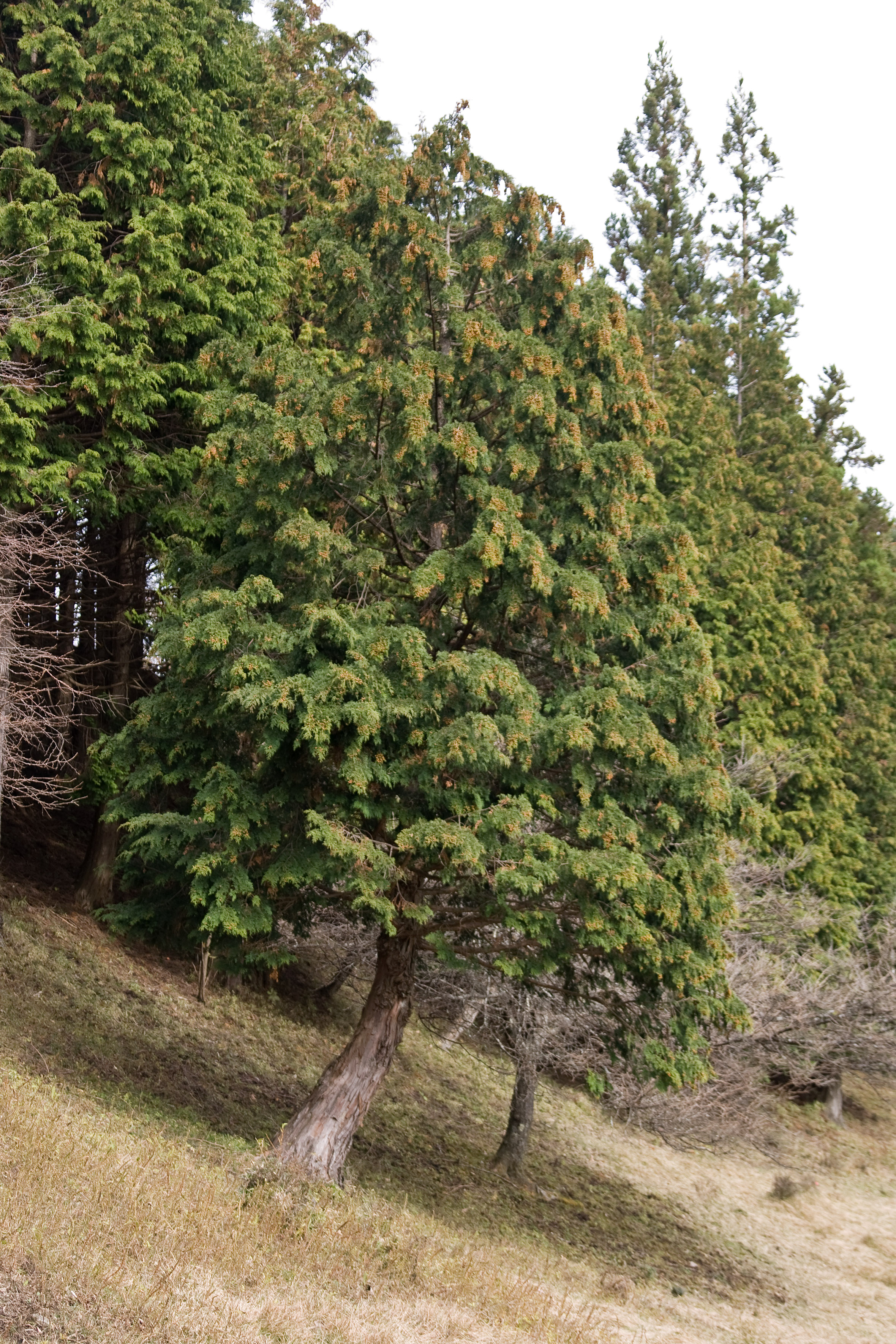 Hinoki Cypress, Tanzawa Mountains, Japan